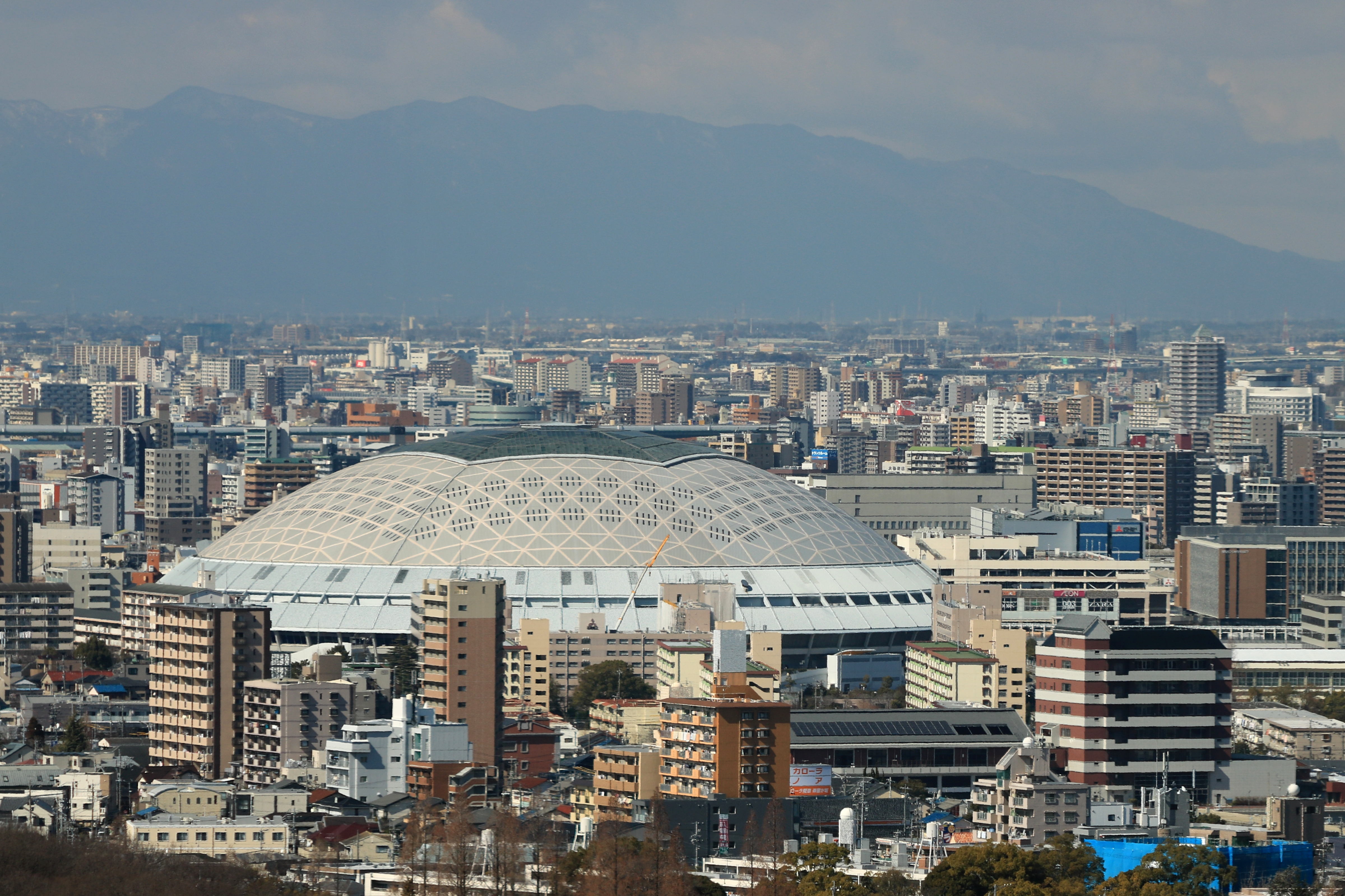 Nagoya Dome seen from Heiwa Park Aqua Tower in Nagoya, Aichi prefecture, Japan.